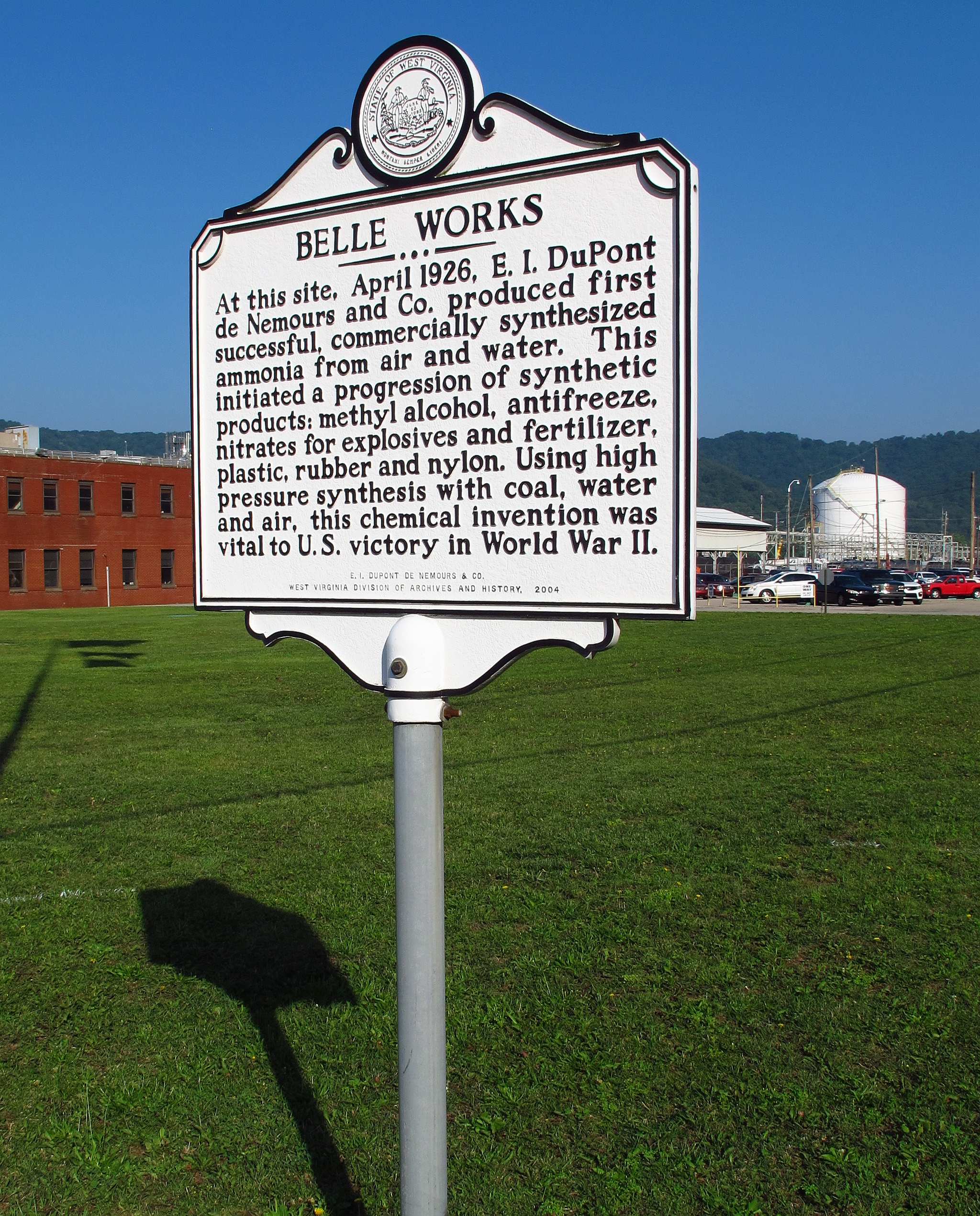 Marker outside DuPont's Belle Plant in Dupont City, West Virginia.